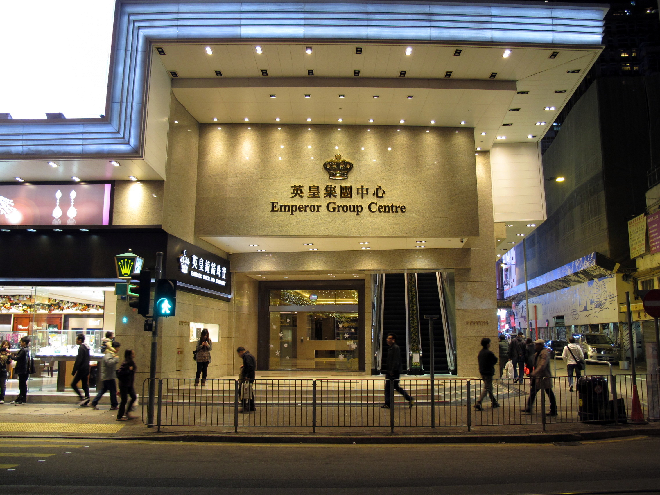 Emperior Group Centre